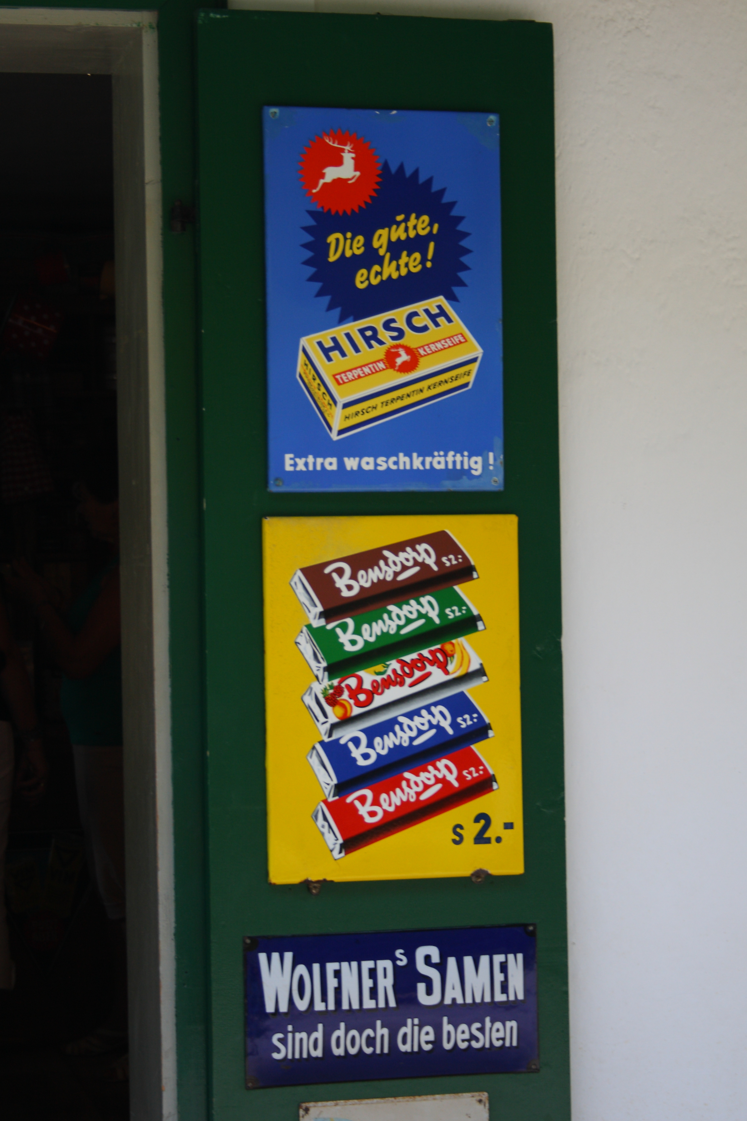 outdoor museum Stübing , farm, Styria, Austria